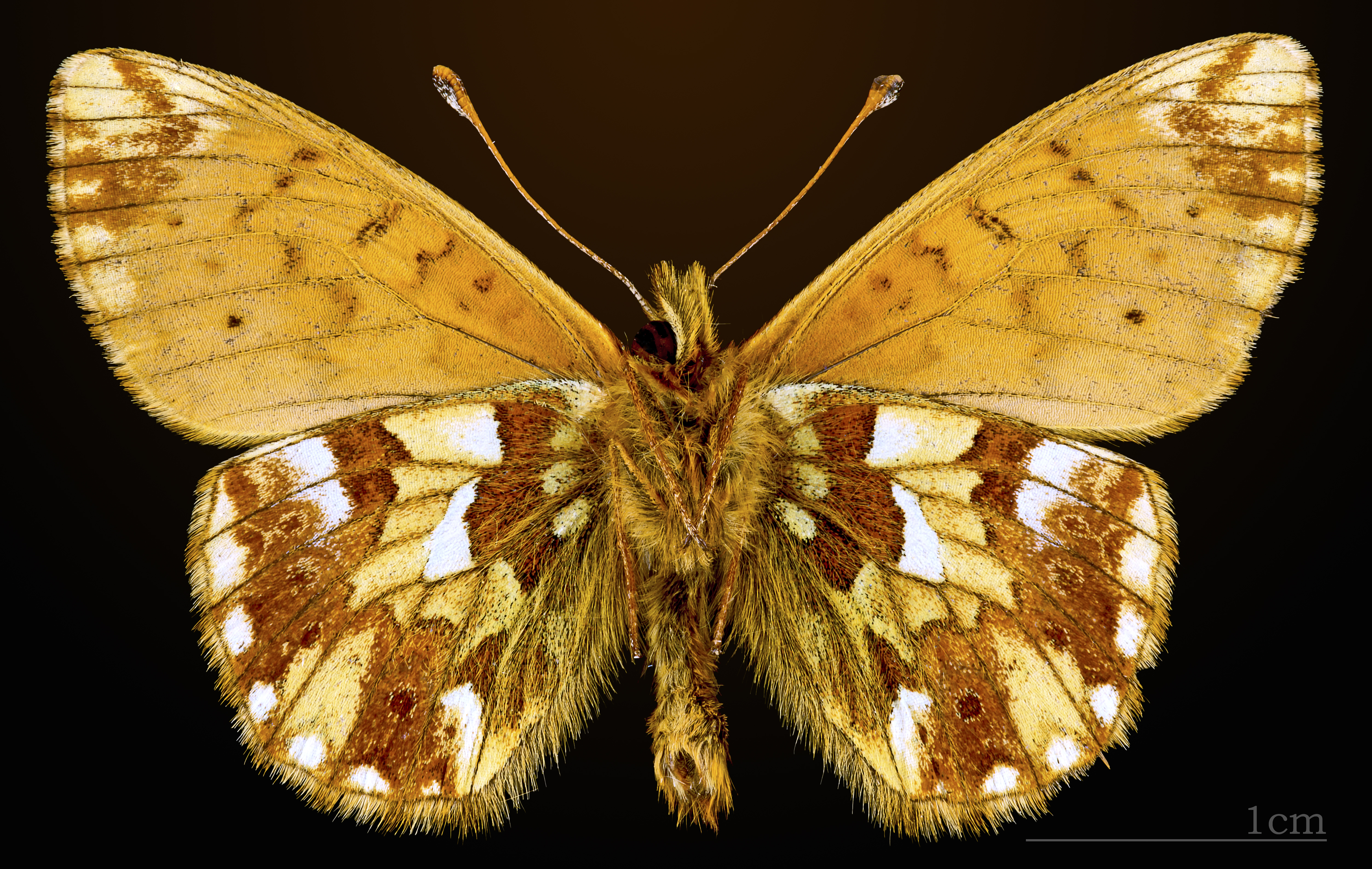 Napaea Fritillary - △ Ventral side Locality:Étang de Laurenti, Ariège, France